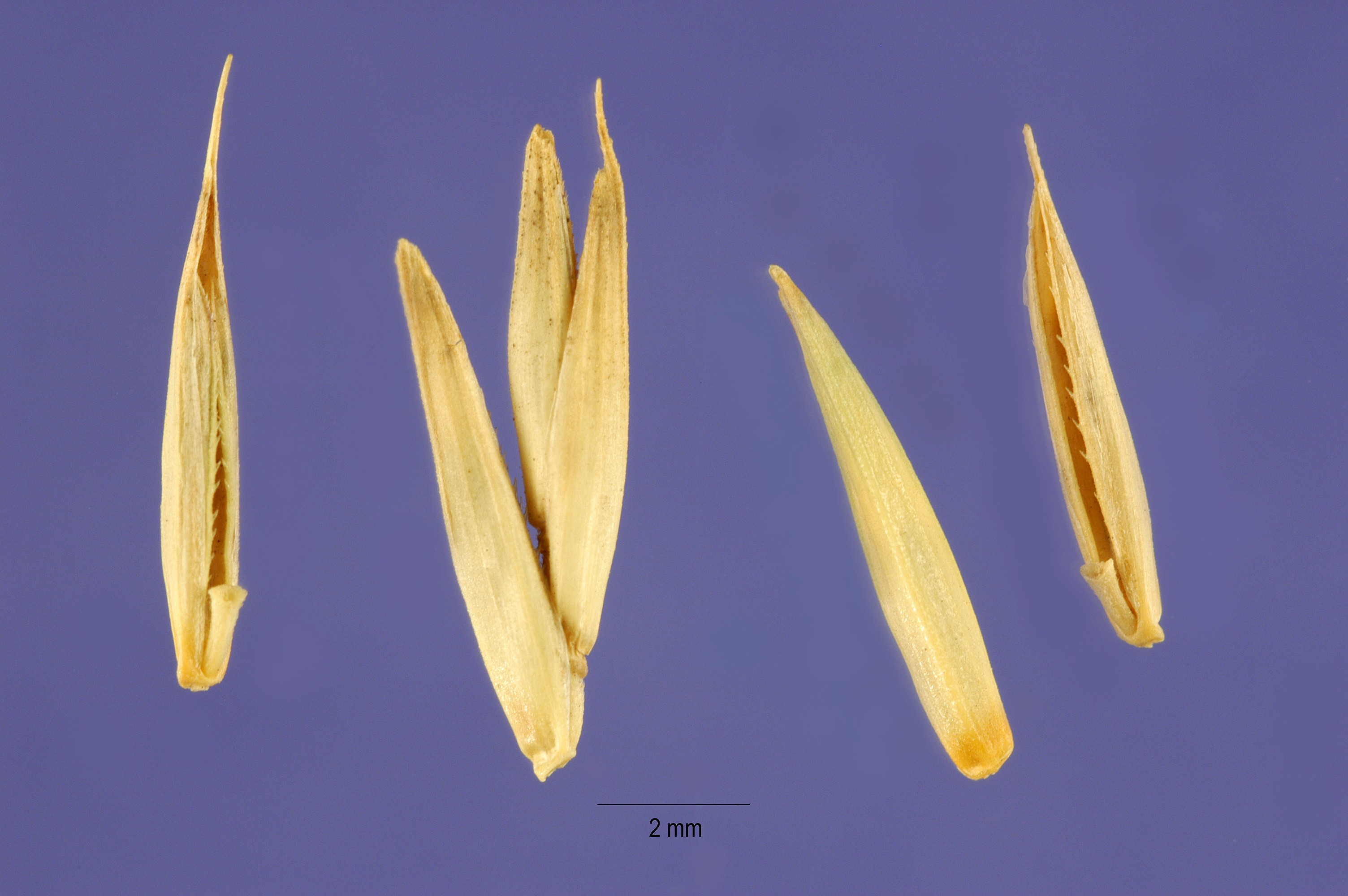 Crested Wheatgrass. Seeds from Saskatchewan, Canada.